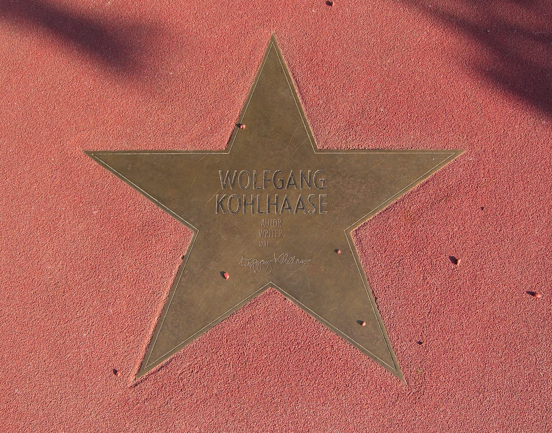 Star of Wolfgang Kohlhaase at "Boulevard der Stars" in Berlin.